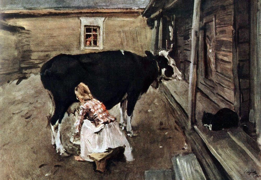 Farm Yard in Finland. 1902. Oil on cardboard. The Tretyakov Gallery, Moscow, Russia.